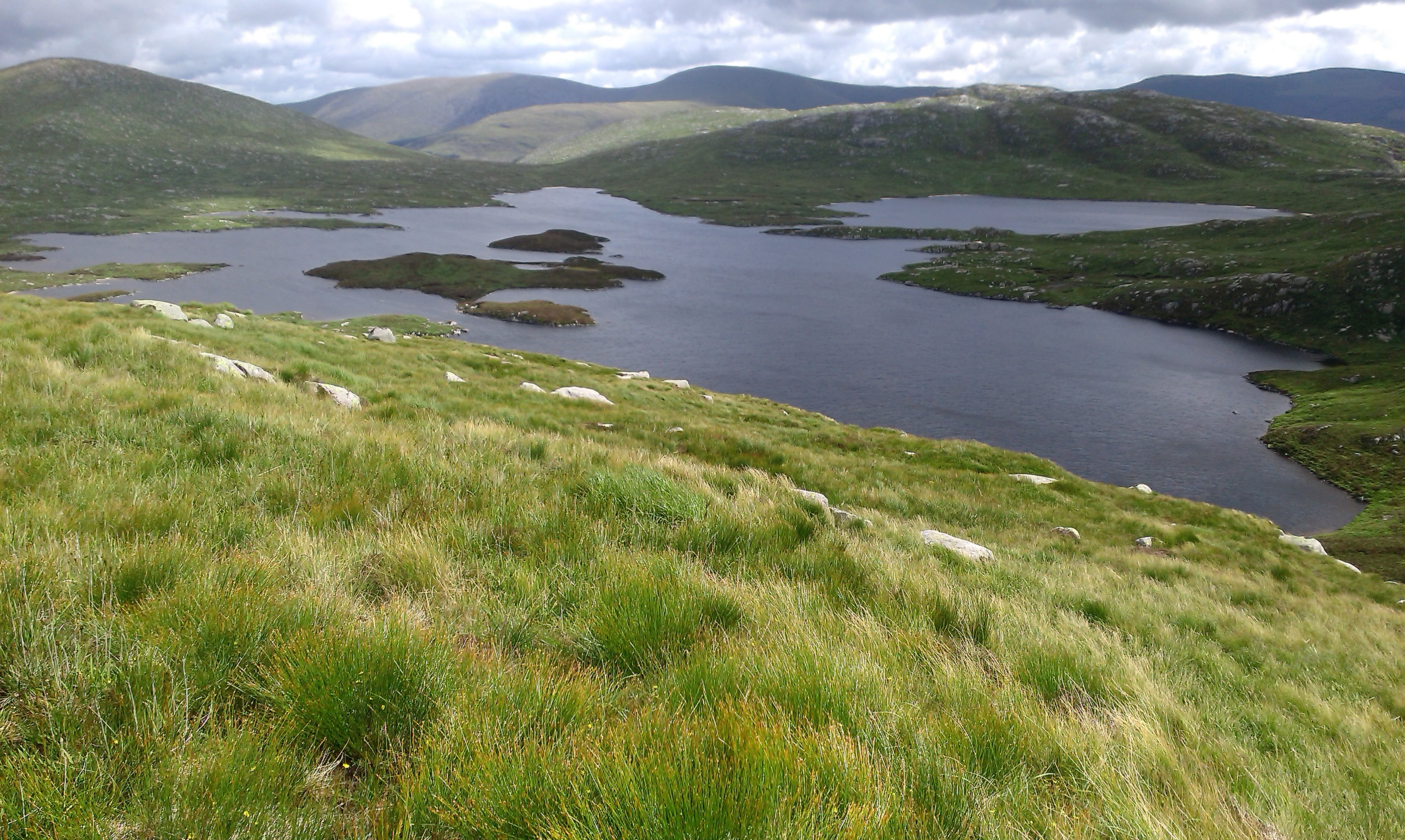 The Loch Enoch from the southeast slope of the Merrick.